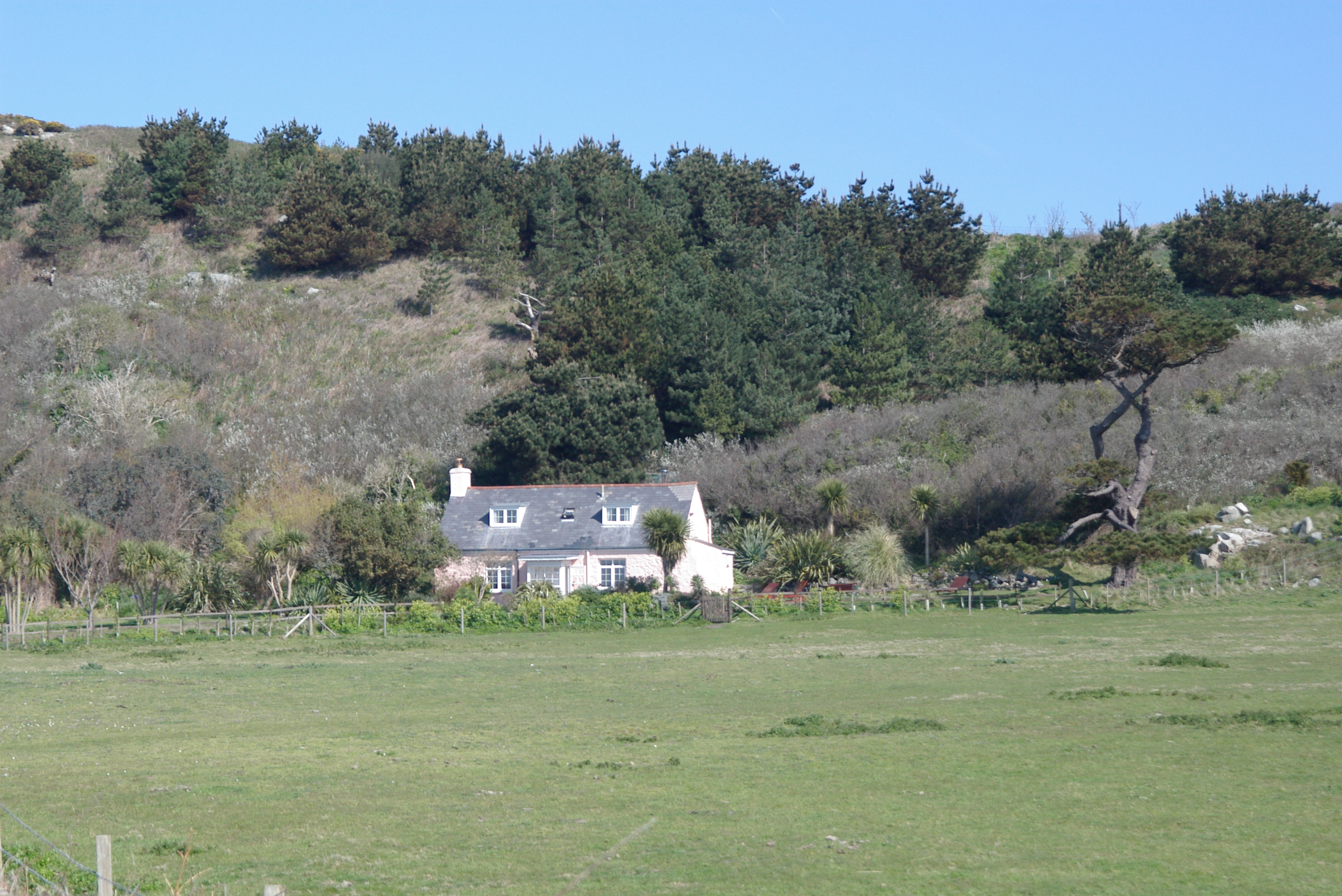 Fisherman's Cottage, Herm Island